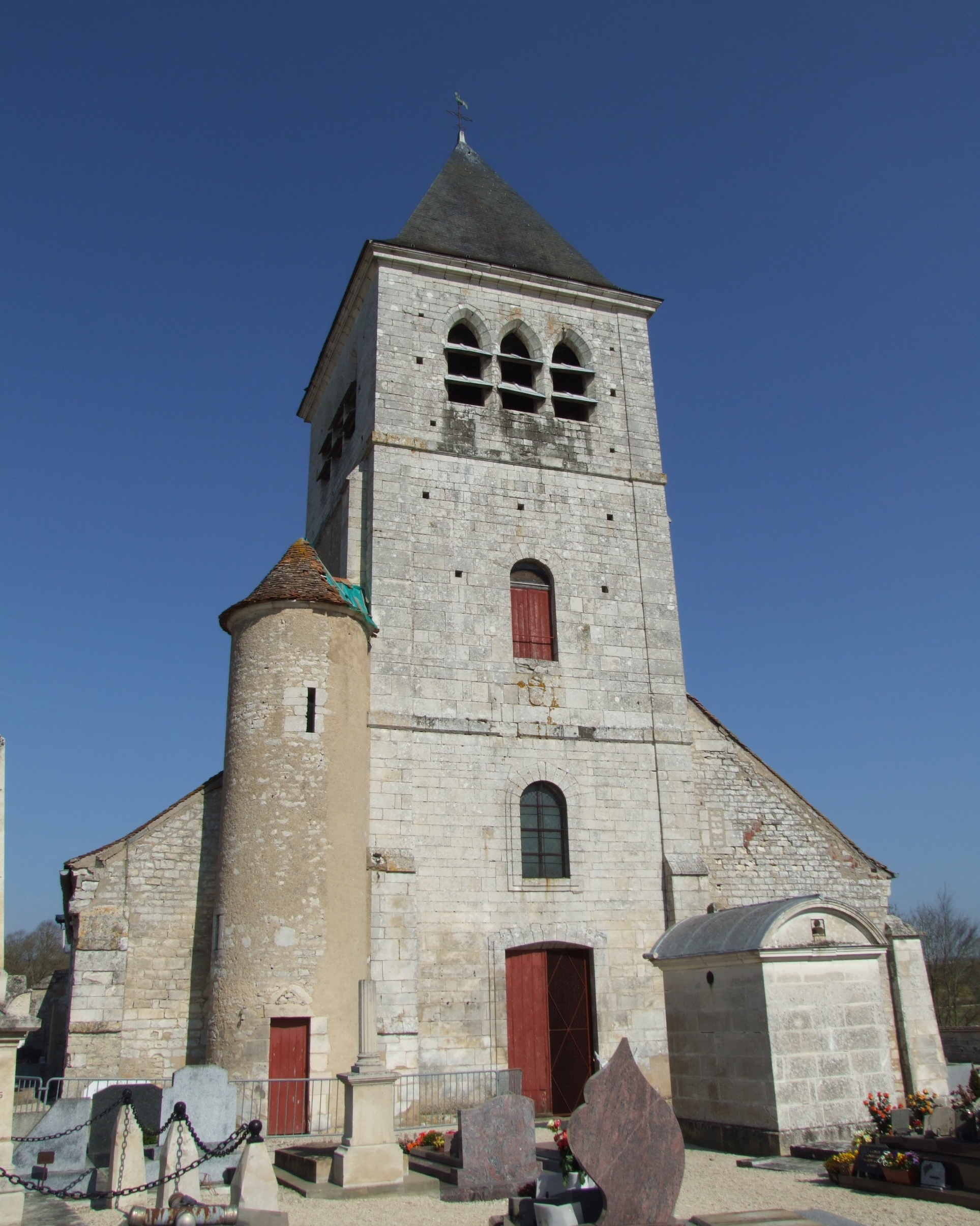 Saint-Pierre church, Chablis, Burgundy, FRANCE